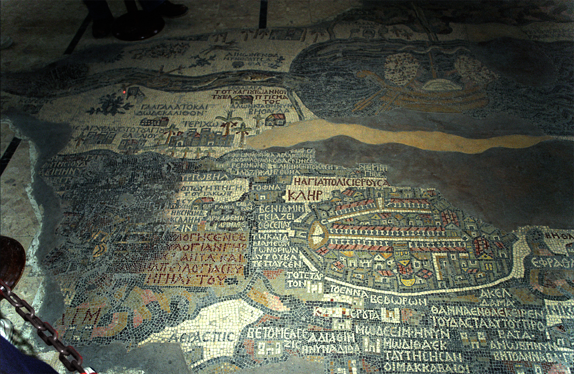 the Madaba Mosaic Map-Madaba, the Greek Orthodox Basilica of Saint George